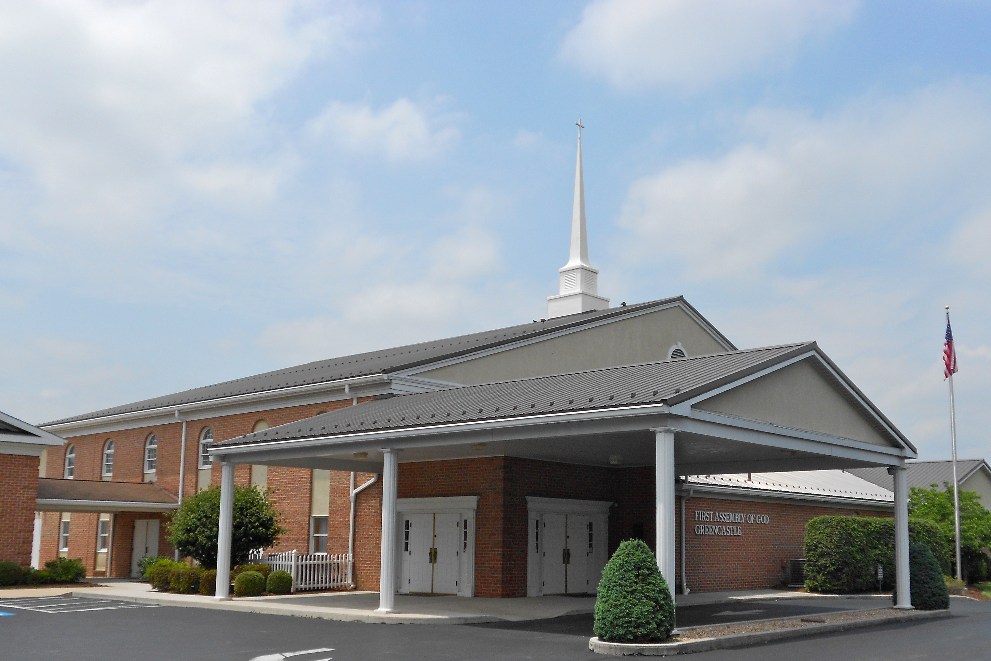 1st Assemby of God Church in Greencastle, Pennsylvania